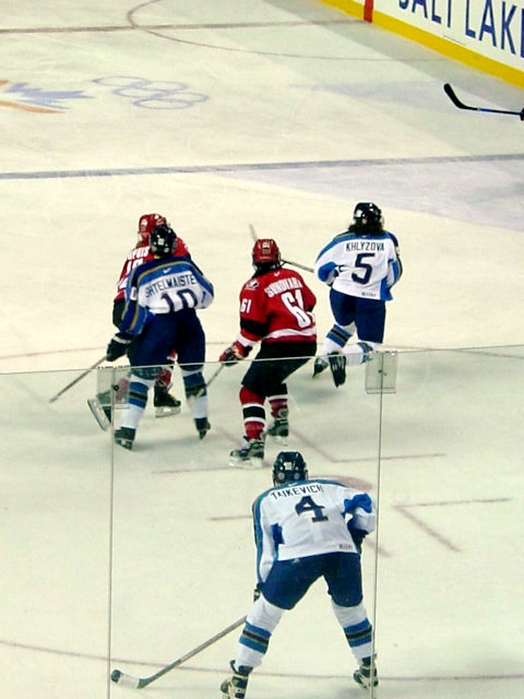 Vicky Sunohara, Canada vs. Kazakhstan, Women's Hockey action at 2002 Winter Olympics in SLC, Utah, E Center. Canada vs Kazakhstan